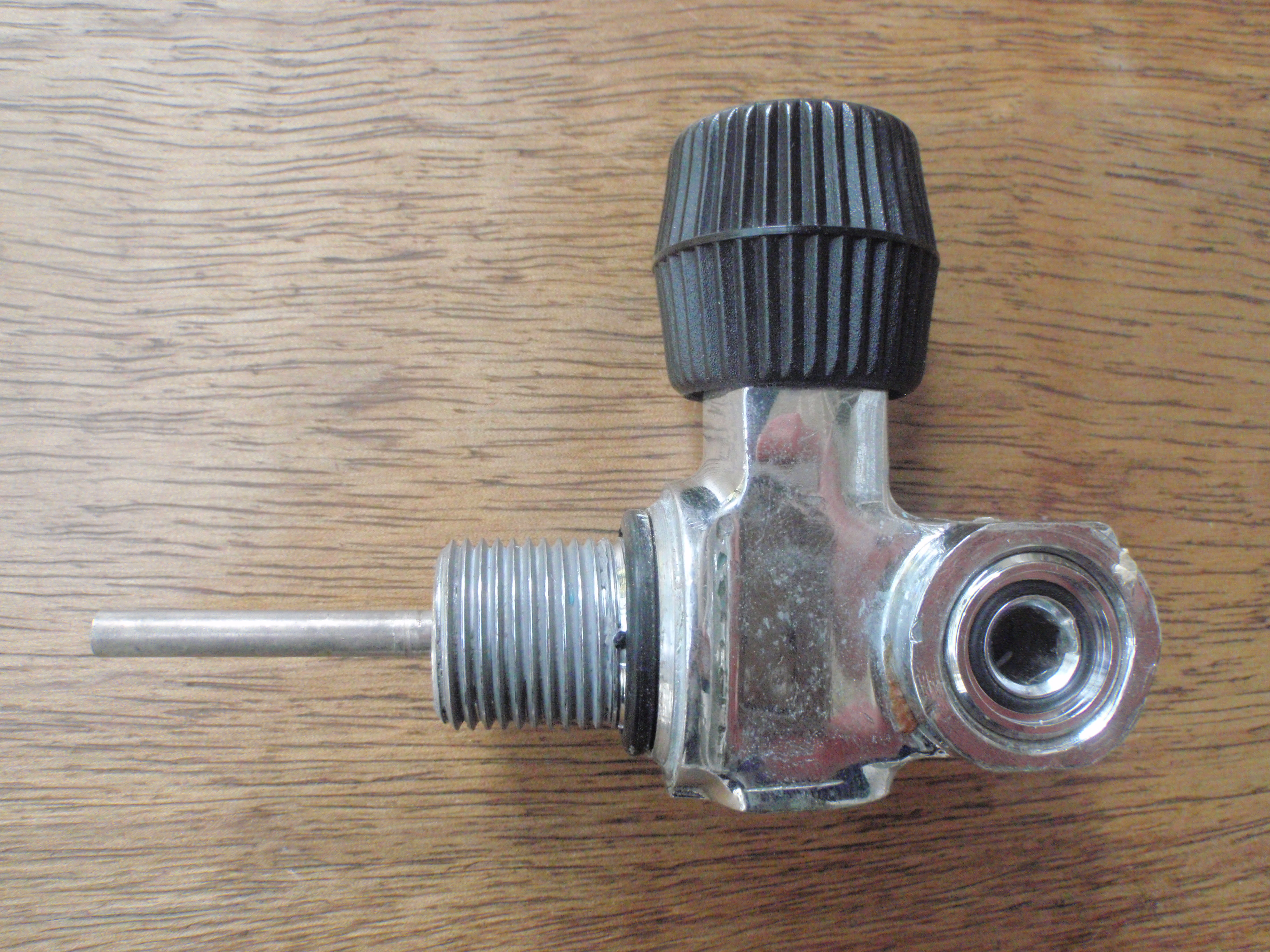 Parallel thread cylinder valve with DIN thread attachment point and plug adaptor insert for yoke fitting